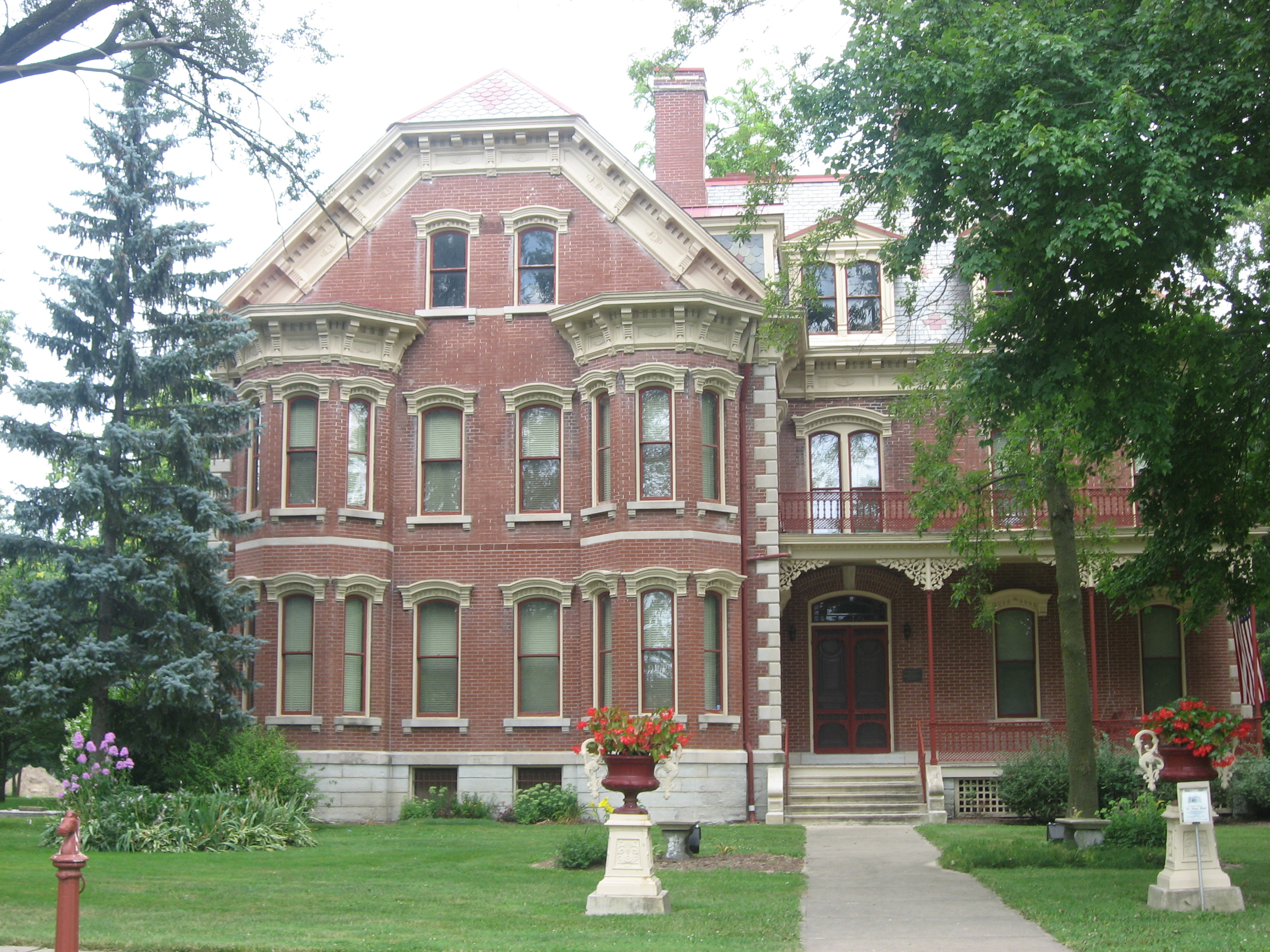 Front of the Dr. Charles M. Wright House, located on the northwestern corner of the junction of Jackson and Main Streets in Altamont, Illinois, United States. Built in 1933, it is listed on the National Register of Historic Places.